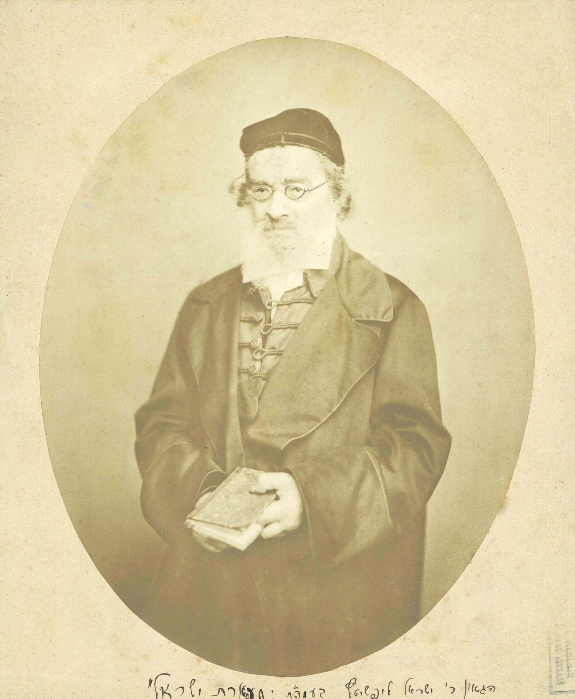 Picture of Israel Lipschitz